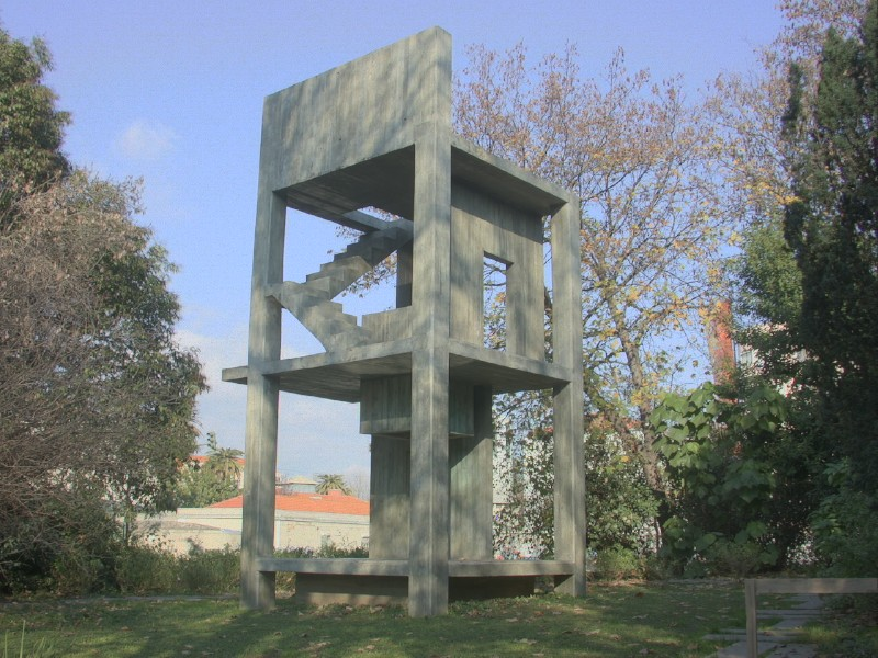 Museu Calouste Gulbenkian, Lisbon: Installation. Sample scene for HDRI. This is a JPEG-HDR image; HDR data has been stored in this file as a JPEG marker using subband encoding.